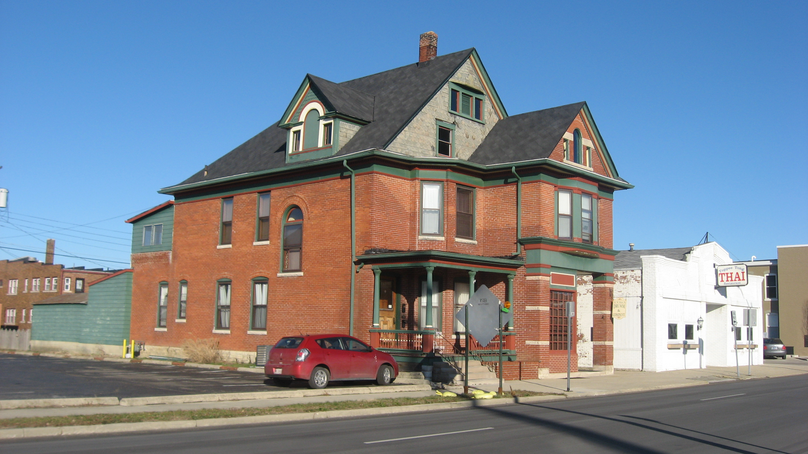 Front and western side of the Eli Hoover House, located at 316 W. Main Street in Muncie, Indiana, United States. Built in 1899 and now the home of an accounting firm, it is listed on the National Register of Historic Places.